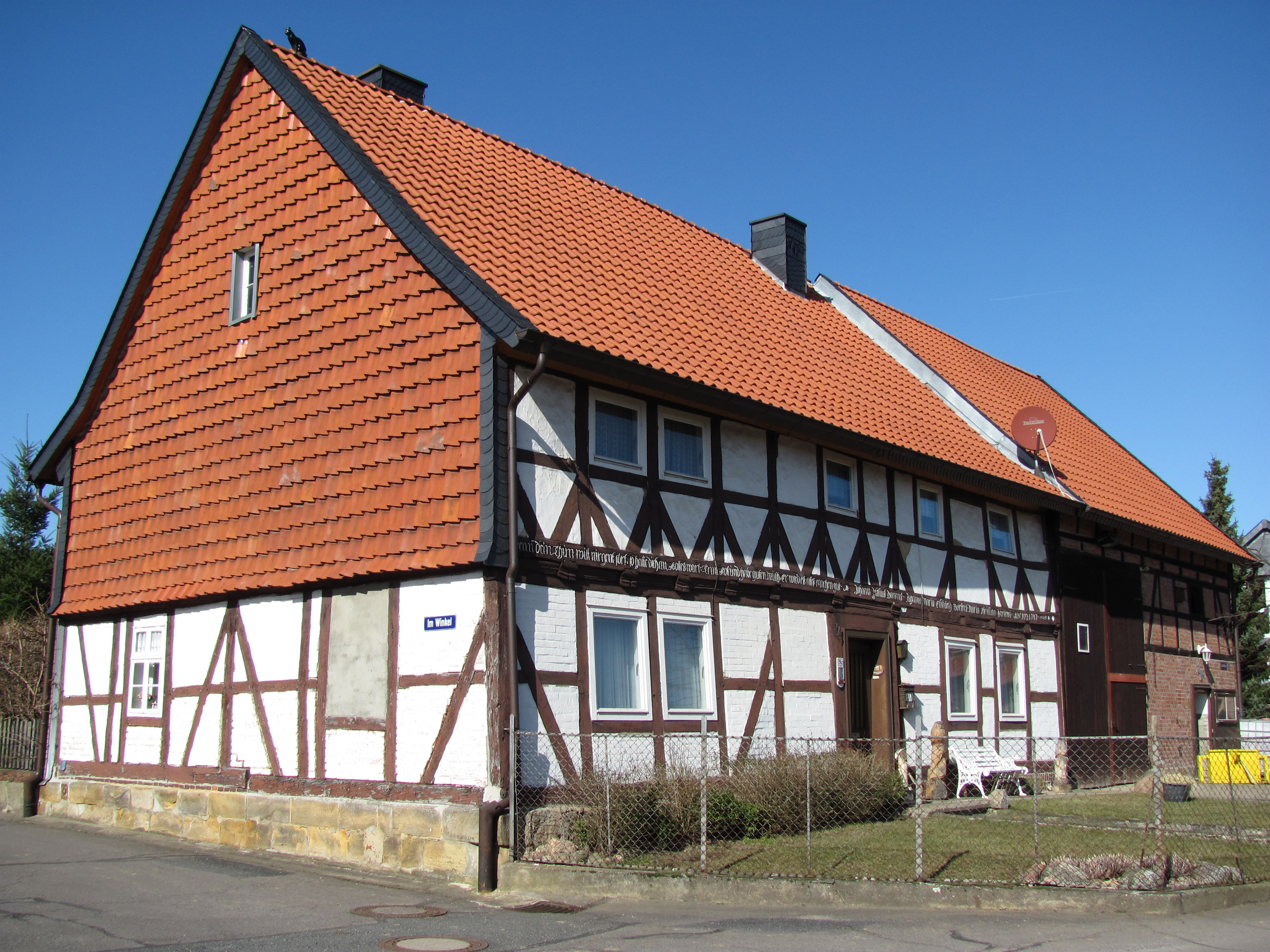 Half-timbered house dating from 1787, Holle-Sottrum, Lower Saxony, Germany.